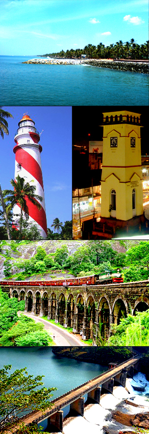 Scenic beauty of Kollam District: Paravur Beach, Kollam Light House & Clock Tower, Thenmala 13 Ring Bridge, Check dam across Kallada River Other information Created just for making it as the image skyline of Kollam District. Sources